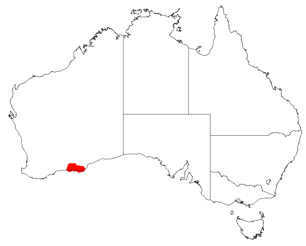 Isopogon alcicornis Occurrence data downloaded from Australasian Virtual Herbarium on 30 October 2018 from